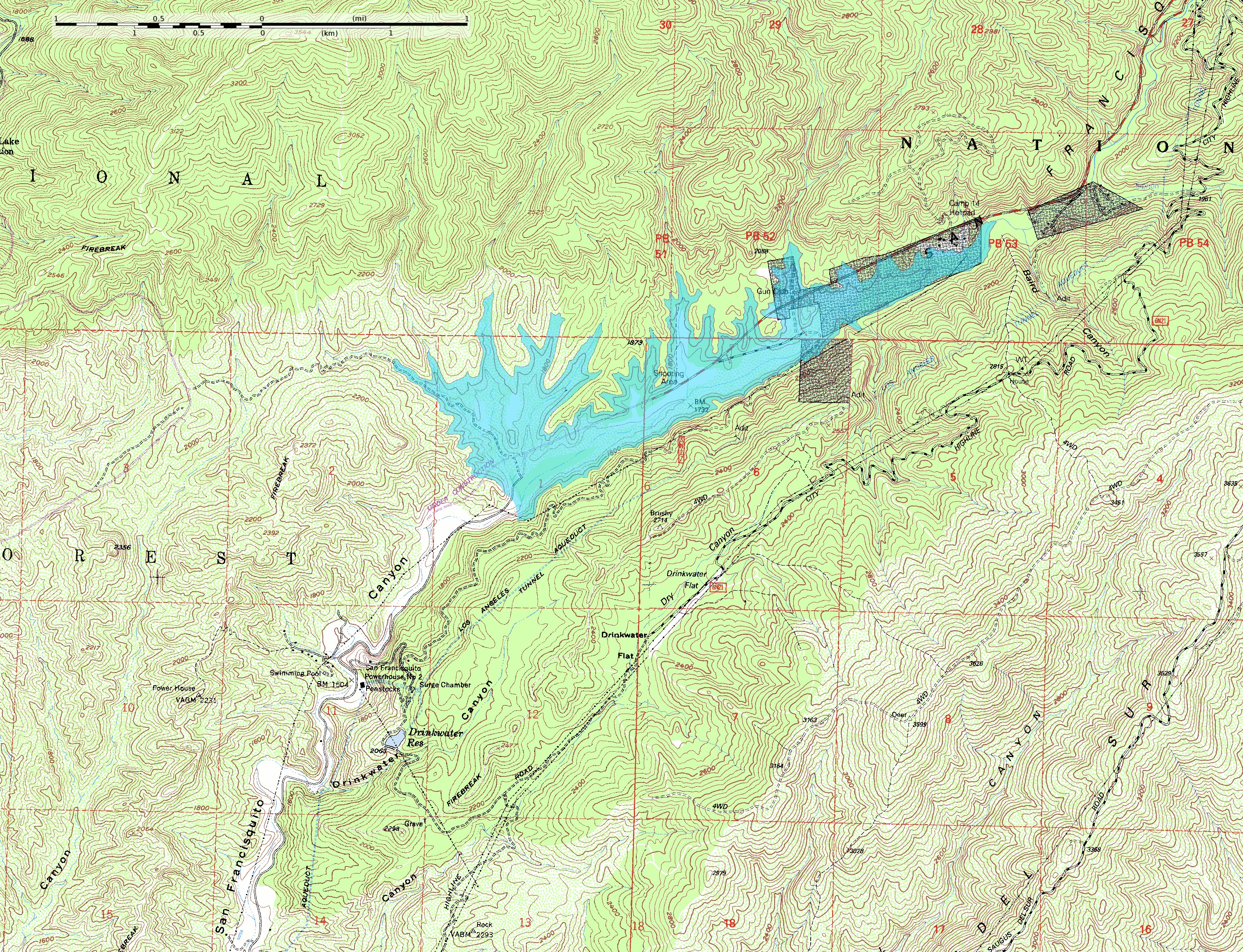 This map shows the approximate extent of the former San Francisquito Reservoir. The reservoir was impounded by the St. Francis Dam which failed in 1928. According to this depiction the reservoir was approximately 2.8 miles (4.5 km) long. In addition to the reservoir this map also shows the location of part of the Los Angeles Aqueduct from which it was filled; it was built as a storage stucture for the aqueduct. Also visible on the map at full size is the location of Powerhouse #2 which figures in the story of the flood created by the failure of the dam. The dark blocks indicate private inholdings in the national forest. The reservoir extent was determined by tracing at or just below the 1840-foot elevation contour; the pool elevation was about 1835 feet when full and when the dam collapsed. The topo map includes sections of the Warm Springs Mountain 7.5" quadrangle (o34118e5) and the Green Valley quadrangle (o34118e4) from the USGS obtained as DRG files. Note: The location and orientation of the dam (at the southwest extent of the reservoir) is approximate. Additionally, the elevation data in this map is from after the breach of the dam, which caused significant erosion of the hillside at the southeast abuttment; the dam was probably a little smaller than this reconstruction depicts.